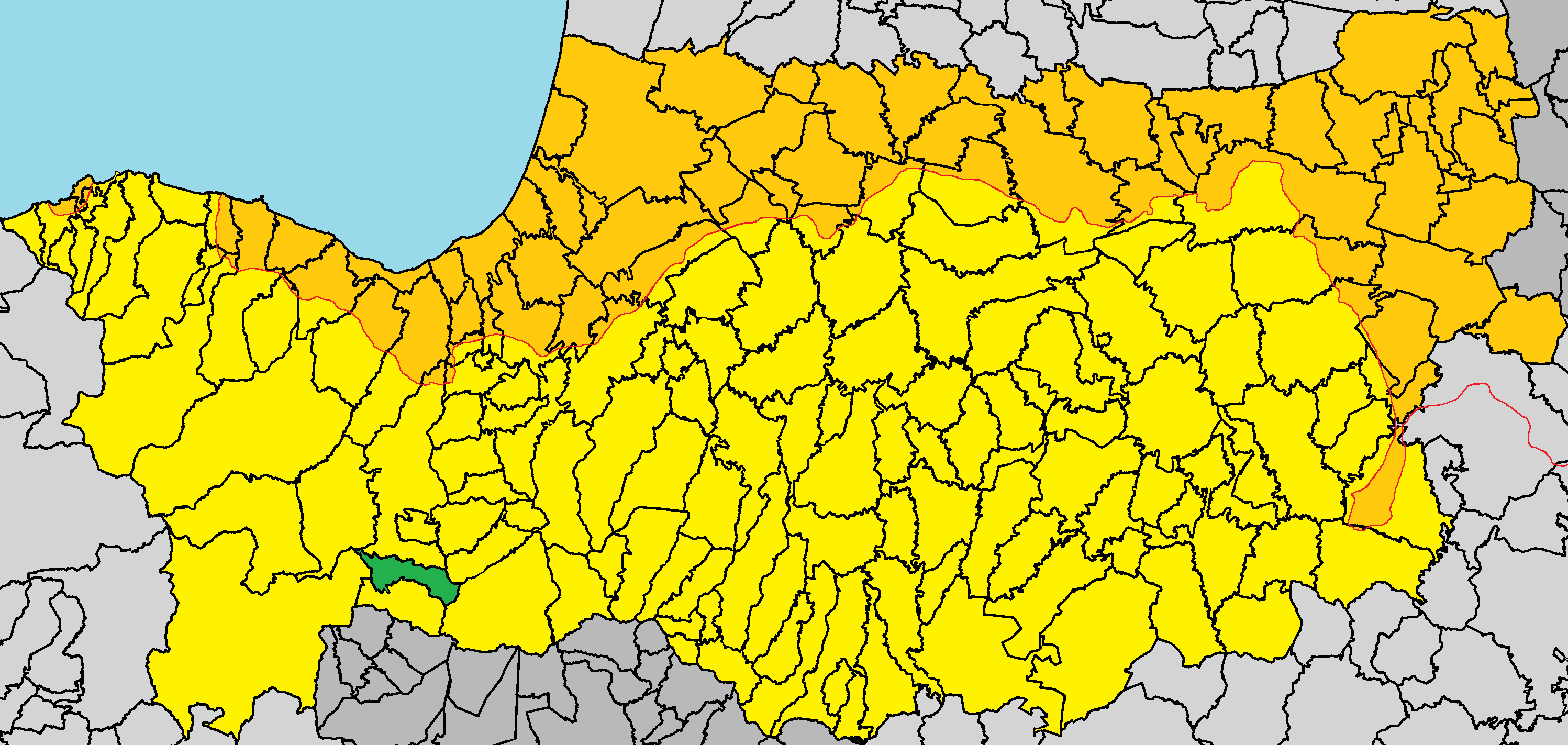 Moutoullas in Nicosia District.